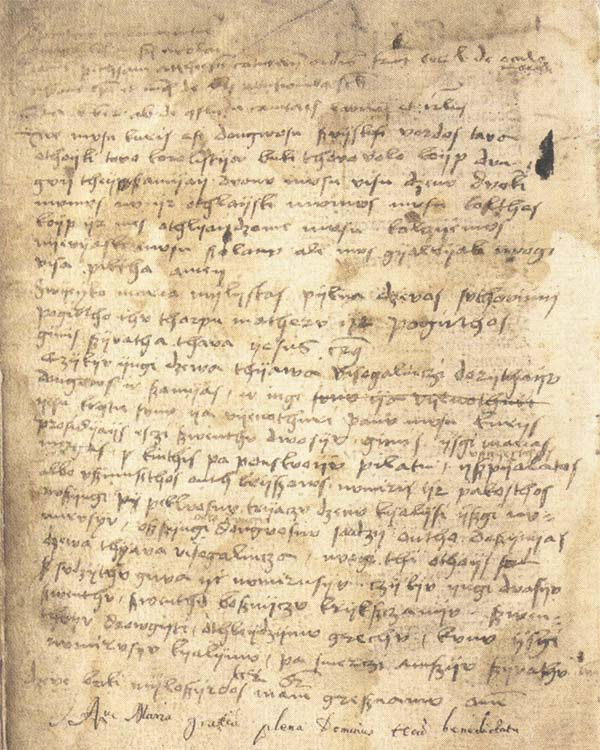 The oldest surviving writing (three Catholic prayers) in the Lithuanian language from around 1503-1515. Rewriting from a 15th century original. Transcript. Original kept in Vilnius University Library.